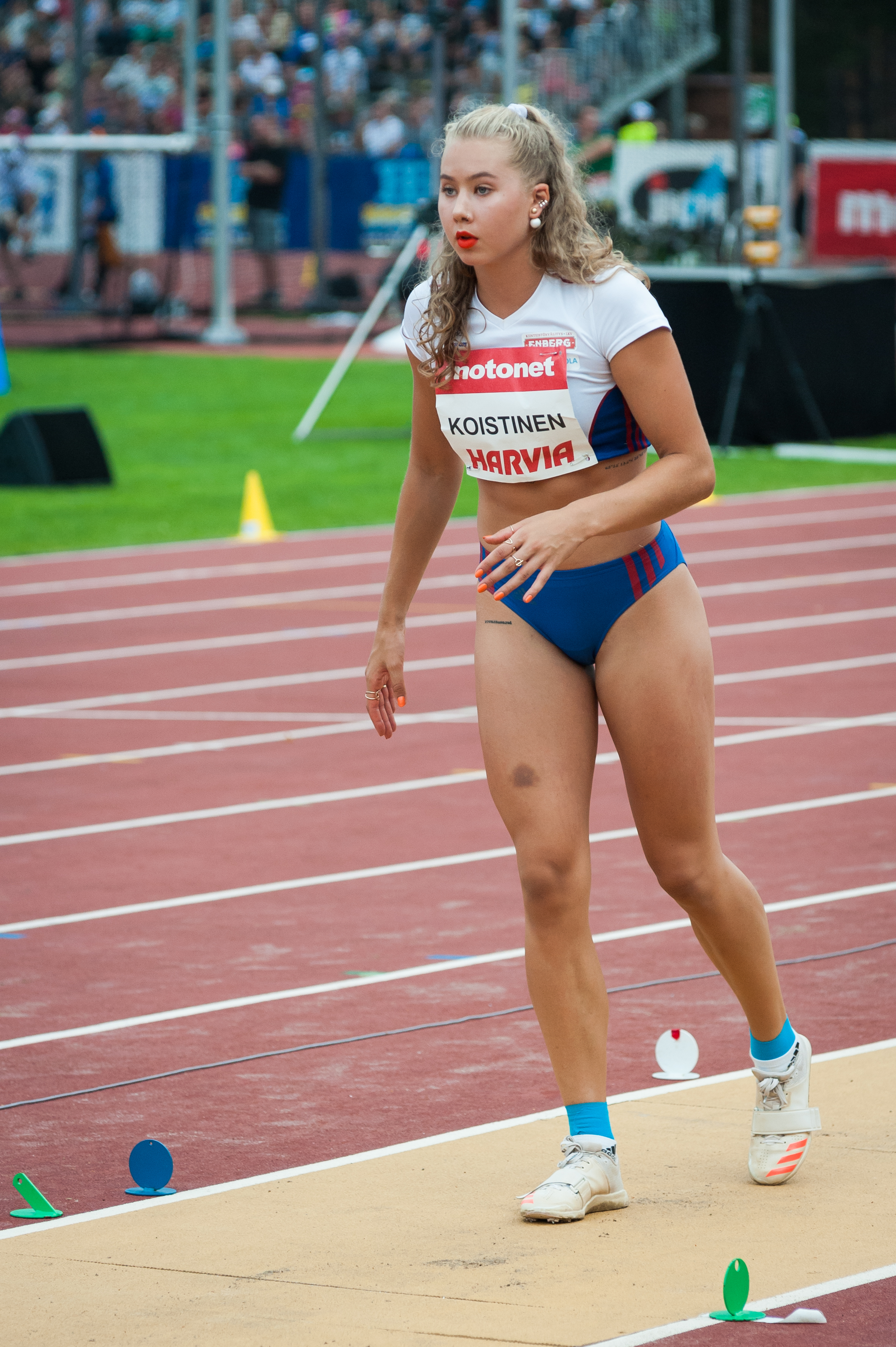 Women's triple jump competition at the 2018 Kalevan Kisat, the Finnish championships in athletics, in Jyväskylä, Finland.